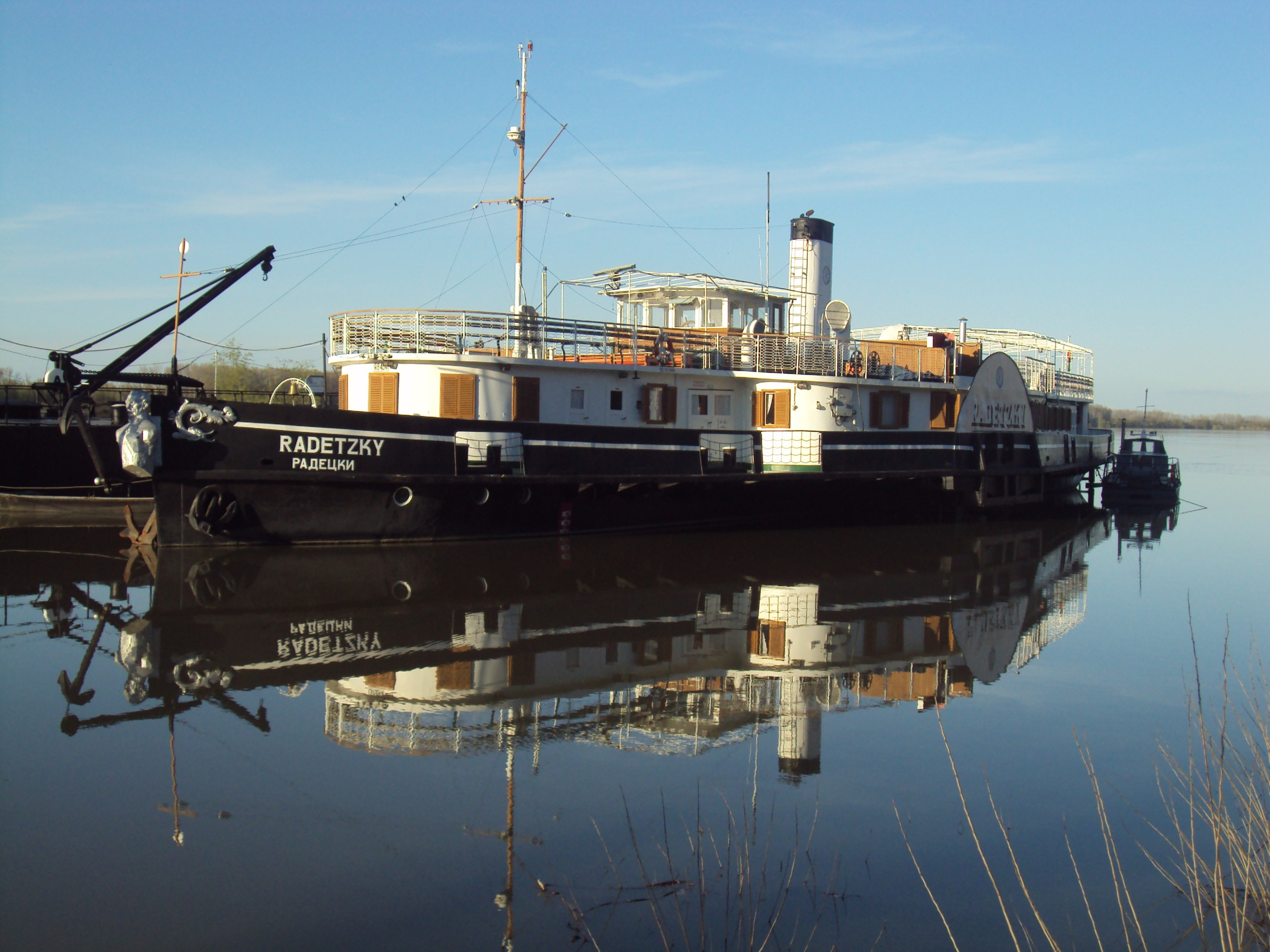 National Museum Steamship "RADETZKY", Town of Kozloduy, Bulgaria